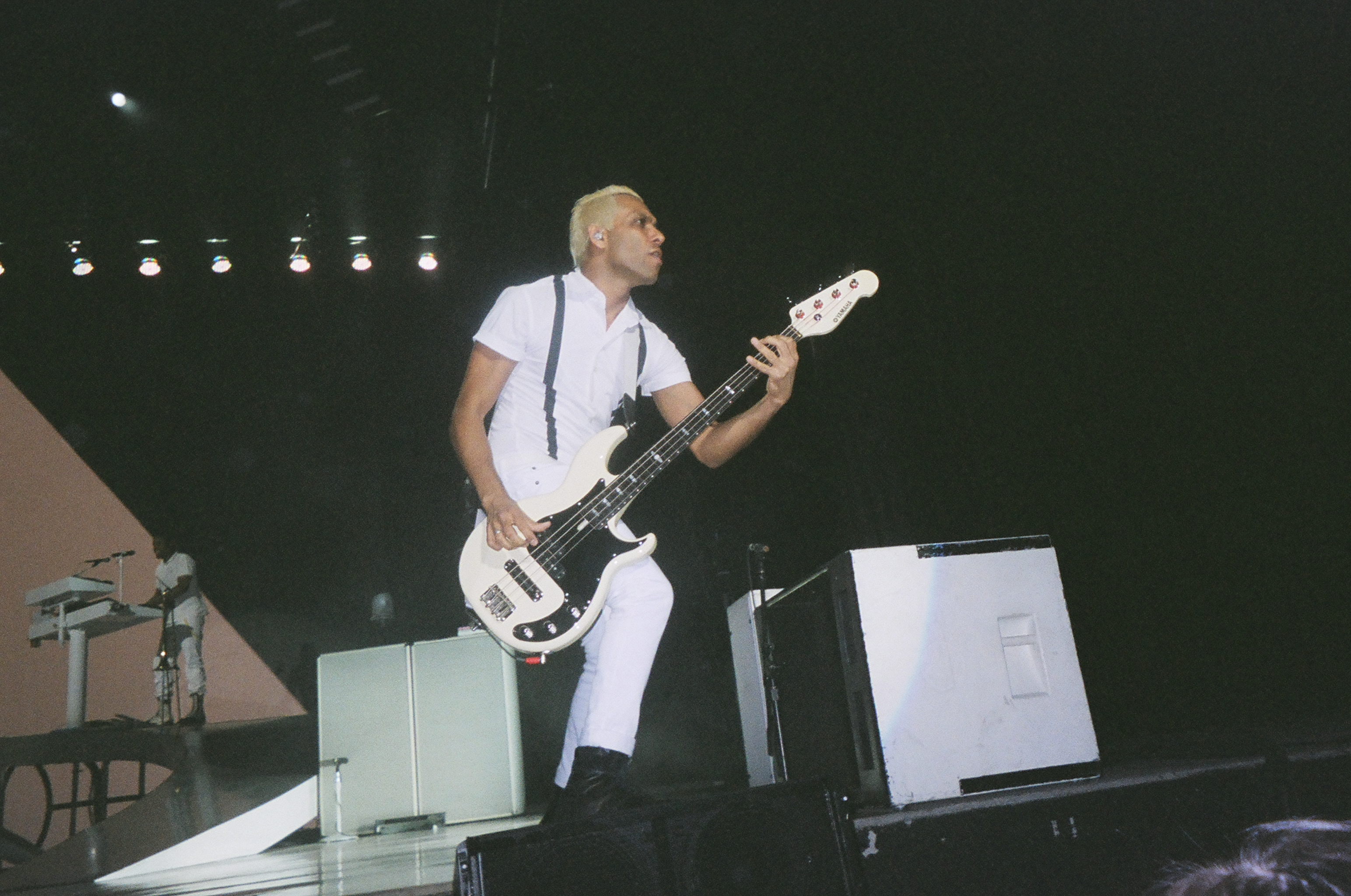 Tony Kanal during No Doubt's 2009 summer reunion tour in Auburn, WA at the White River Amphitheatre.